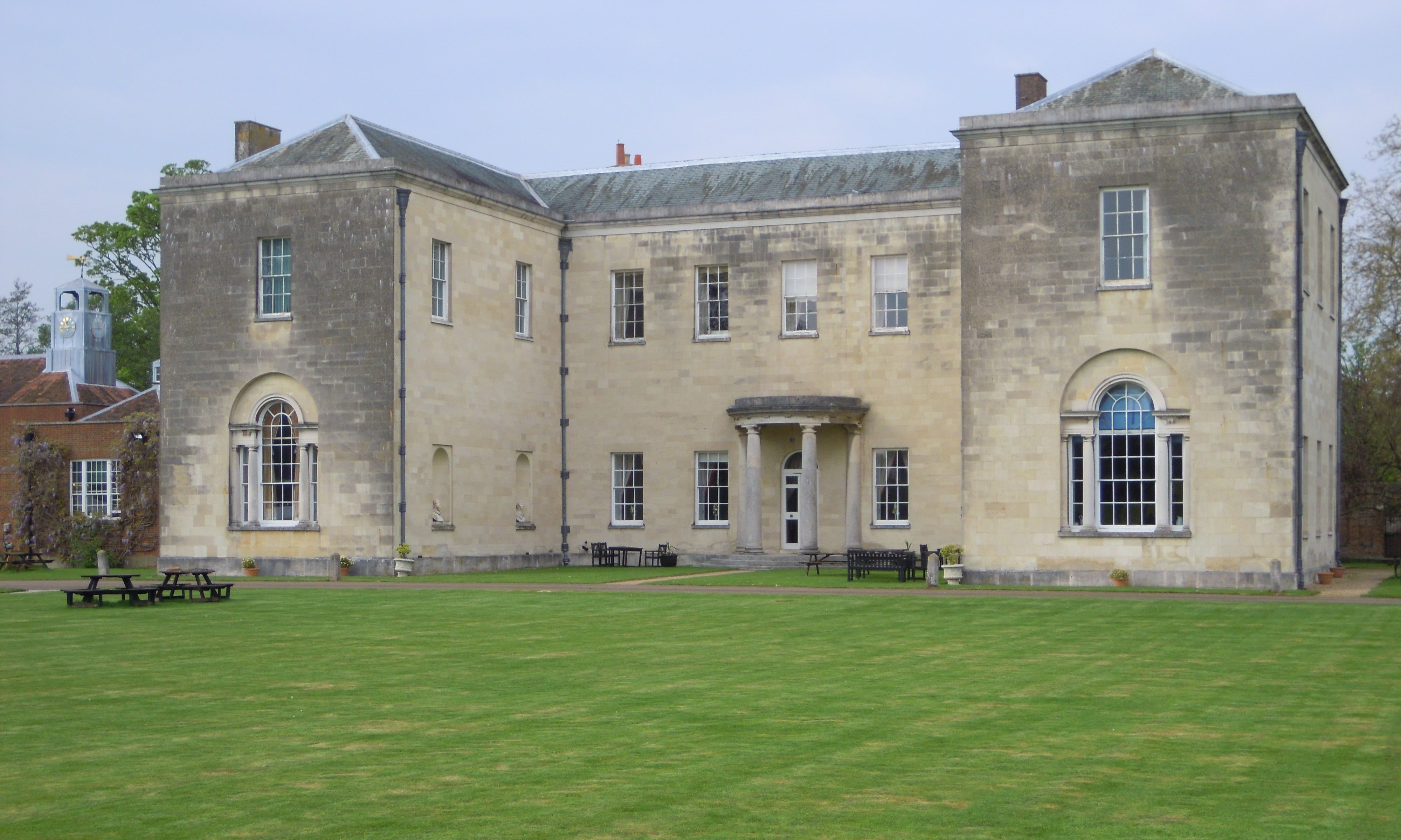 The rear of The Priory in Hitchin